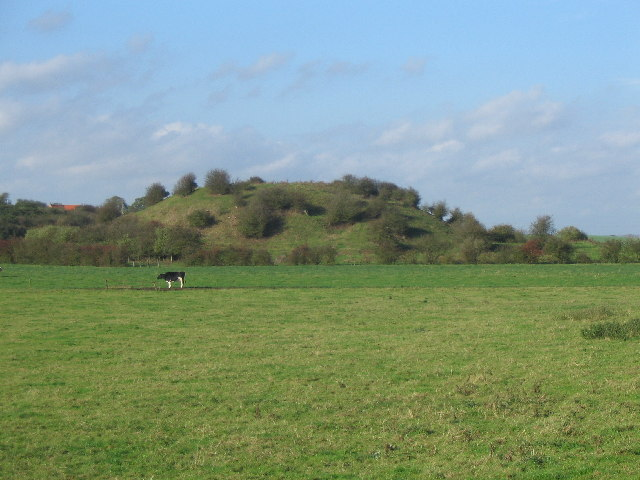 Motte of Skipsea Castle, Skipsea Brough, East Riding of Yorkshire, England.The remains of Skipsea castle, a large motte, viewed across farmland from the south. Footings of a stone gatehouse lie upon the top of the 11thC motte. During a brief rebellion in 1221 against the King, William de Forz, Count of Aumale was ordered to relinquish his estates, this included Skipsea Castle, which was destroyed.